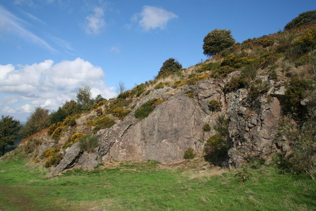 Miniature Granite Quarry, Table Hill